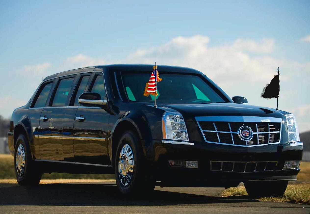 2009 Cadillac Presidential Limousine.